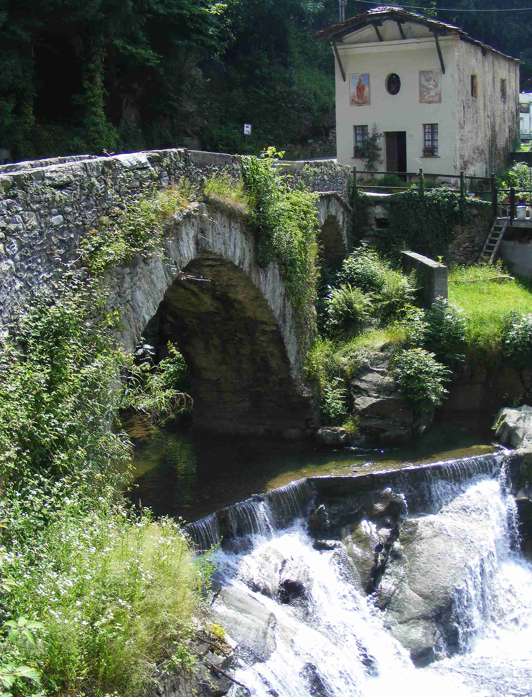 Molino dell'Avvocato bridge on Malone creek (Corio, TO, Italy)